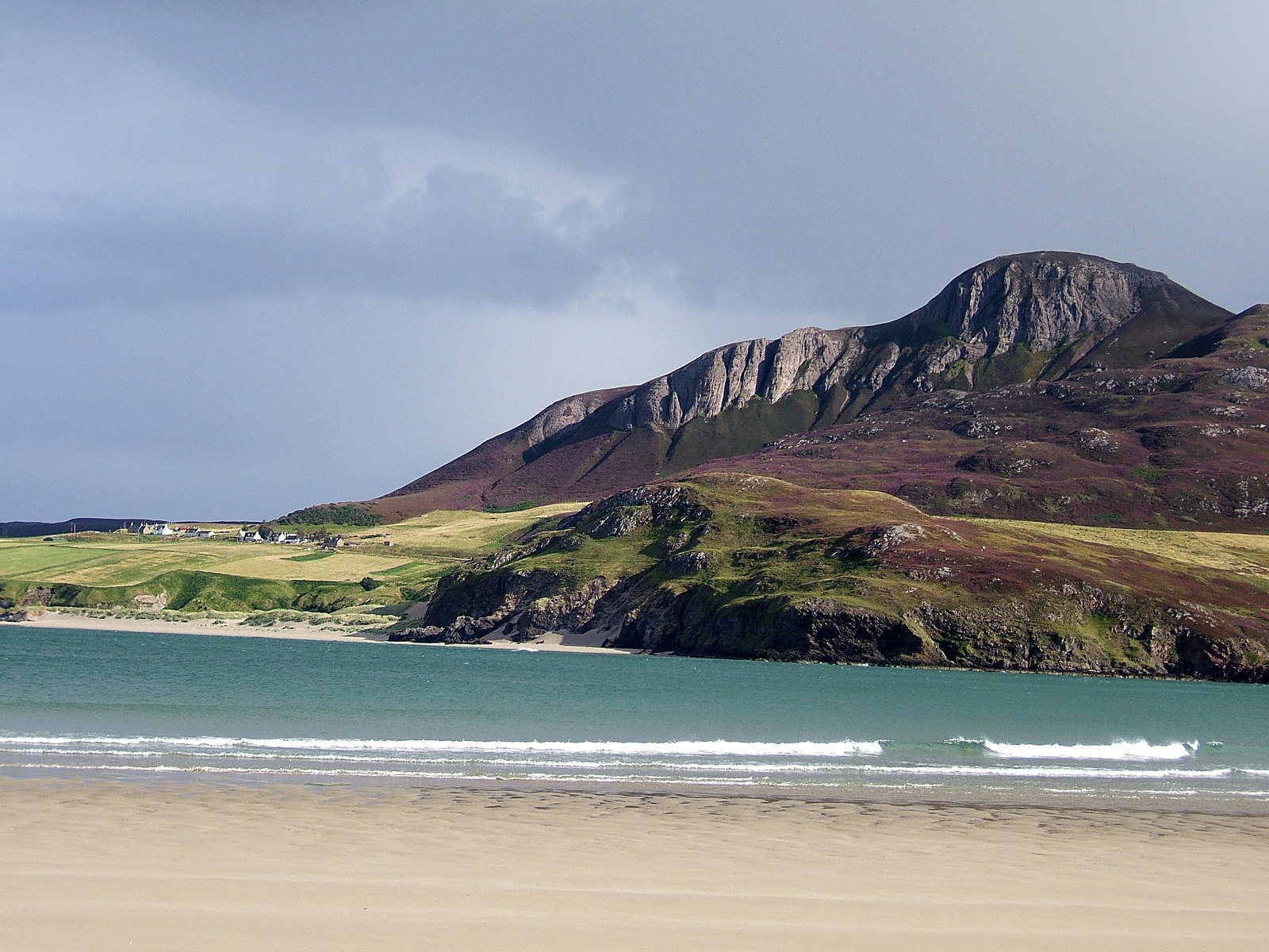 View of Cnoc an Fhreiceadain in Sutherland, Scotland across the Kyle of Tongue from Melness Other information Uploaded to geograph on 2011-01-24.